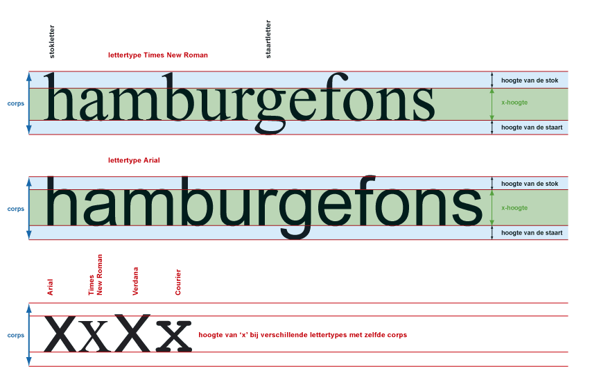 The x-height for various types of letter.